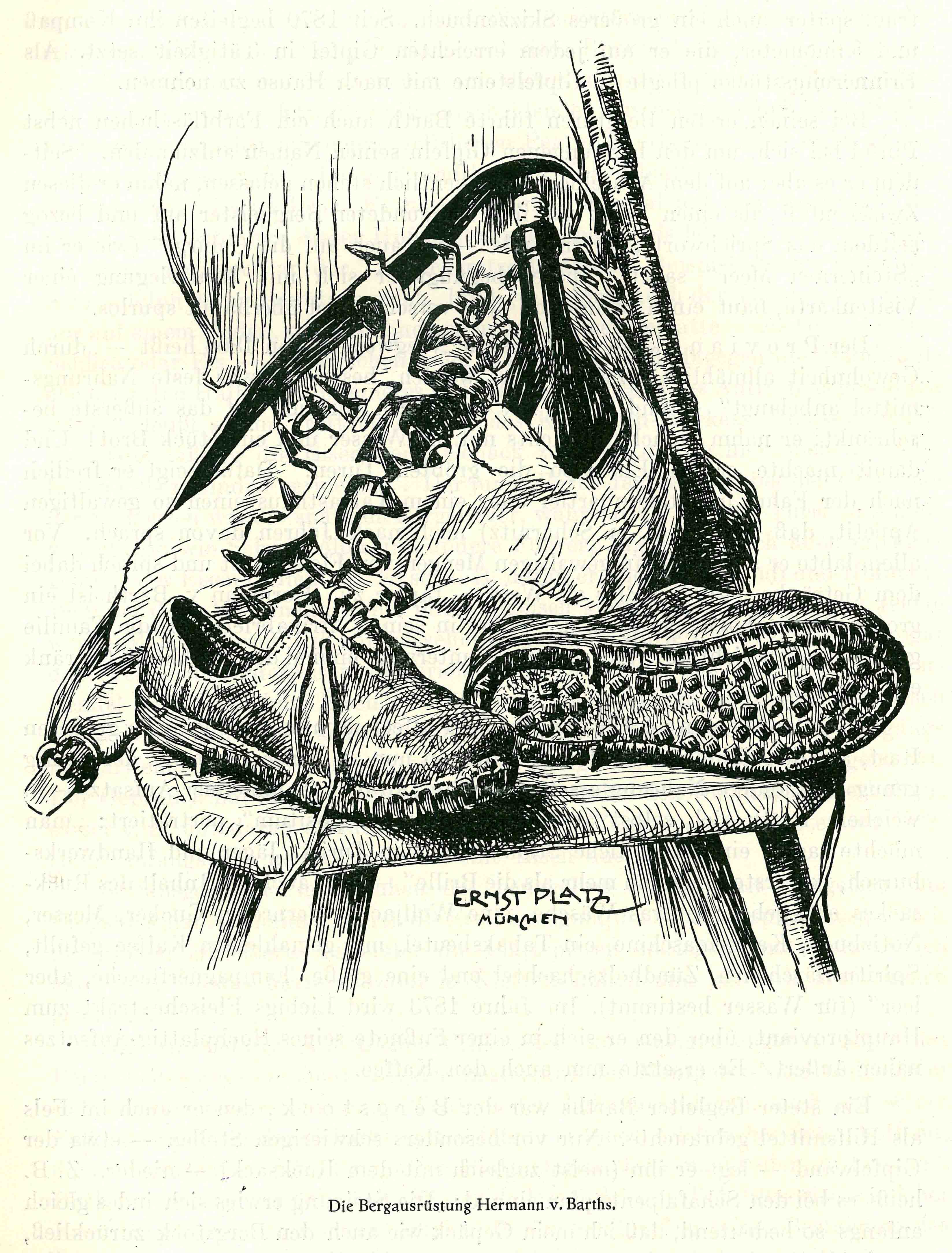 Climbing equipment used in the time of Hermann von Barth (1845-1876) consisting of: Small rucksack with a glass bottle, nailed Haferlschuhe, crampon and hiking stick.